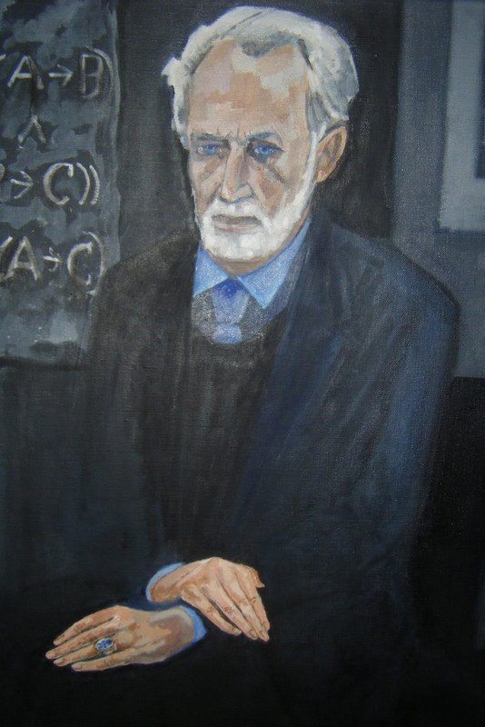 Portrait of the Dutch astronomer and informatics pioneer Alexander Ollongren.